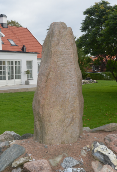 Uppakra runstone